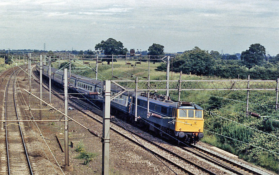 Down electric express passing site of Colwich station View eastward, towards Rugby and London: ex-LNW WCML. The lines on the left go to Stone, Stoke-on-Trent etc. The train is going towards Stafford, headed by Class 86/2 Bo-Bo No. 86.237 'Sir Charles Hallé'.